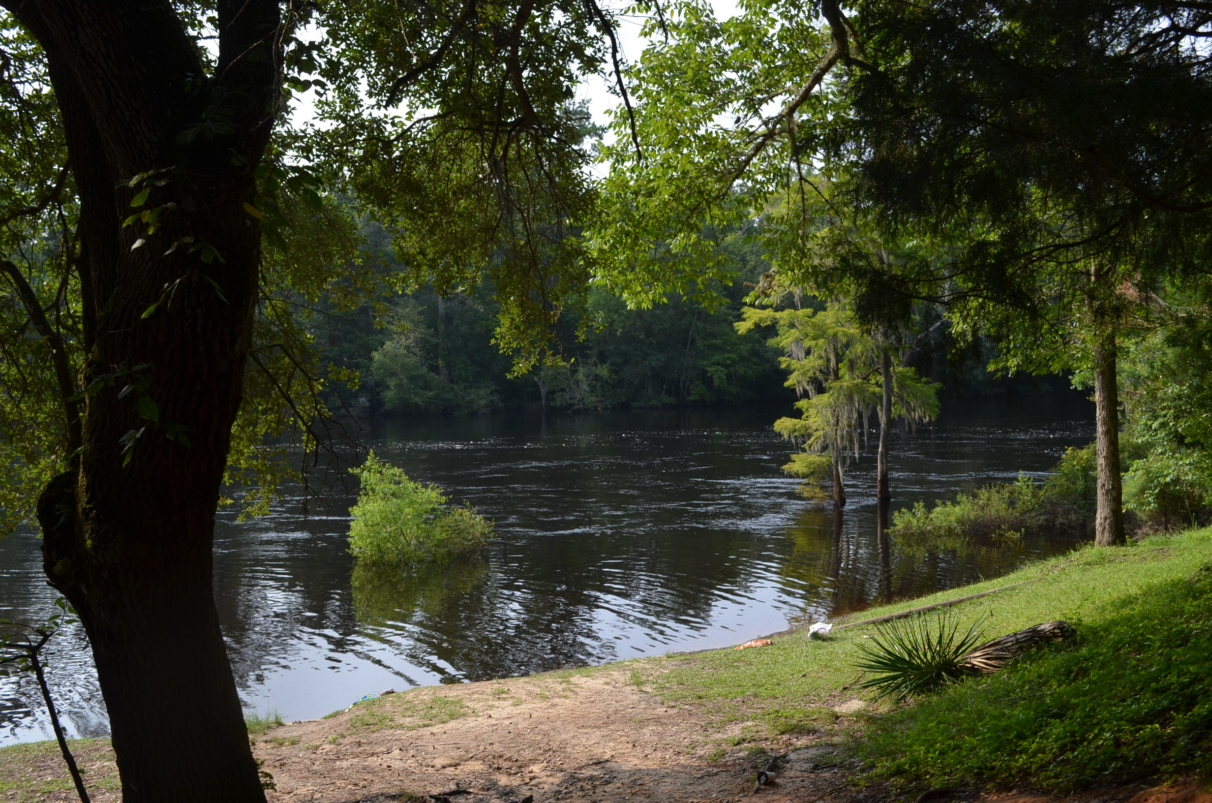 Edisto River above its banks in Givhans Ferry State Park